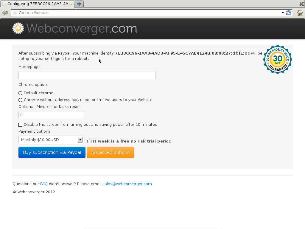 Screenshot of Webconverger 14 running under VMWARE